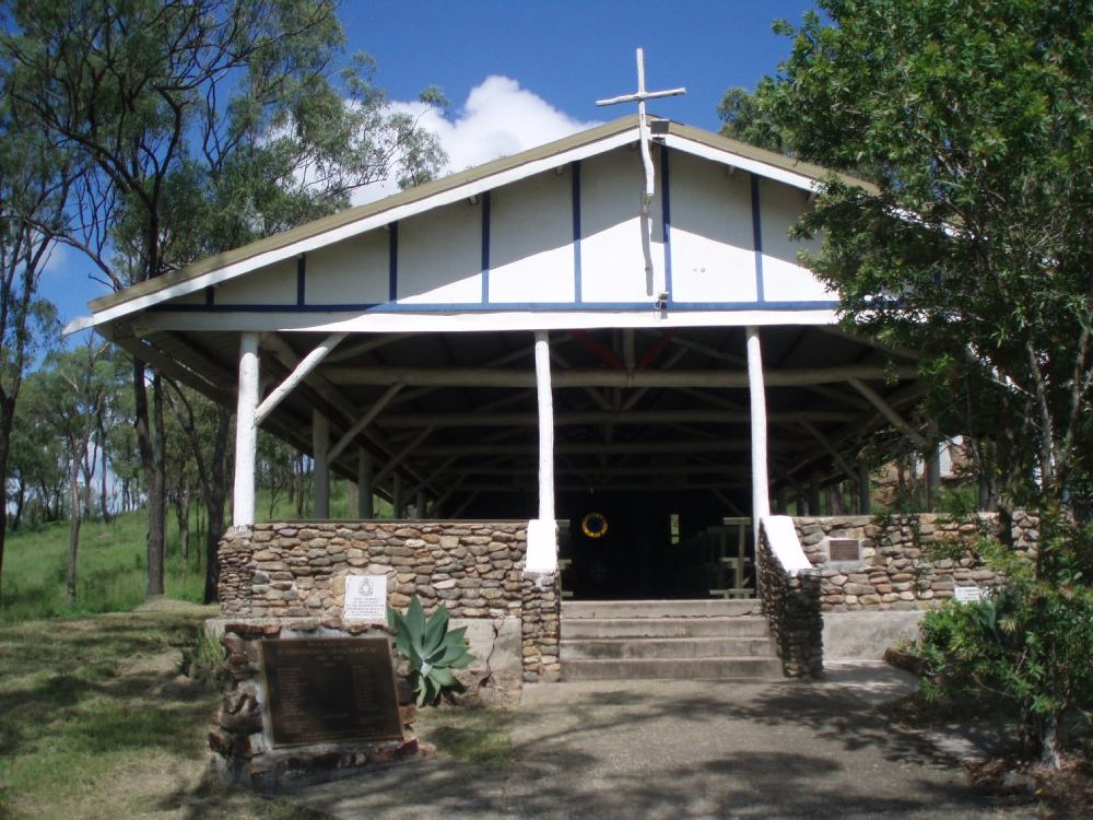 St Christophers Chapel (2009) - close-up